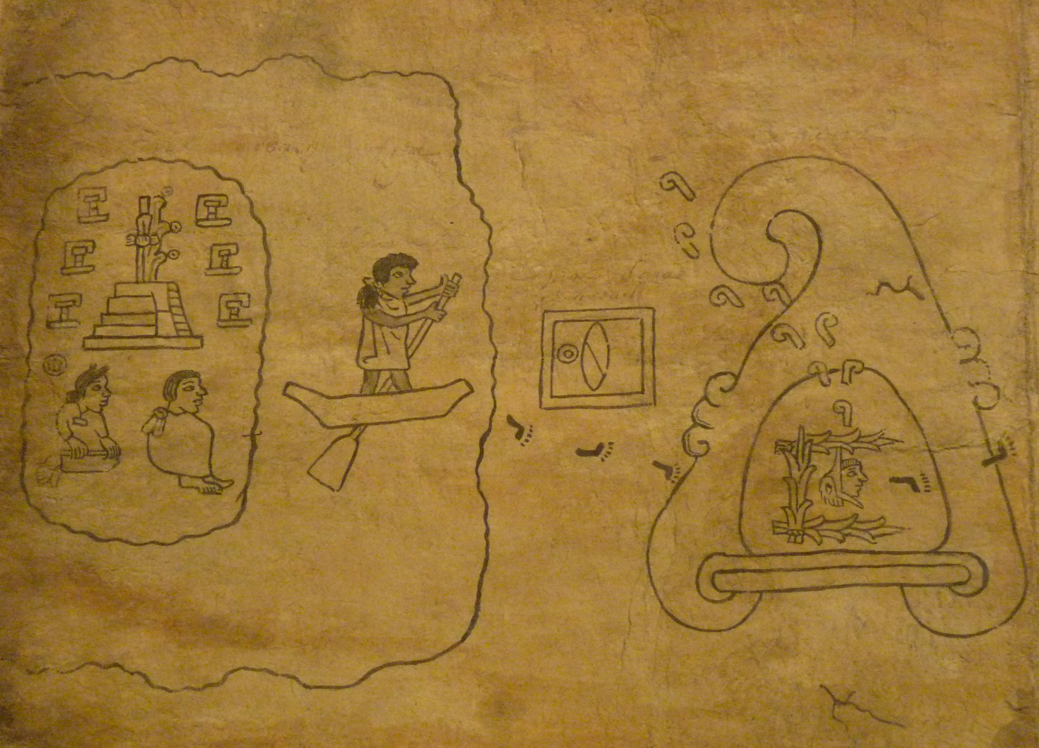 Codex Boturini, page 1